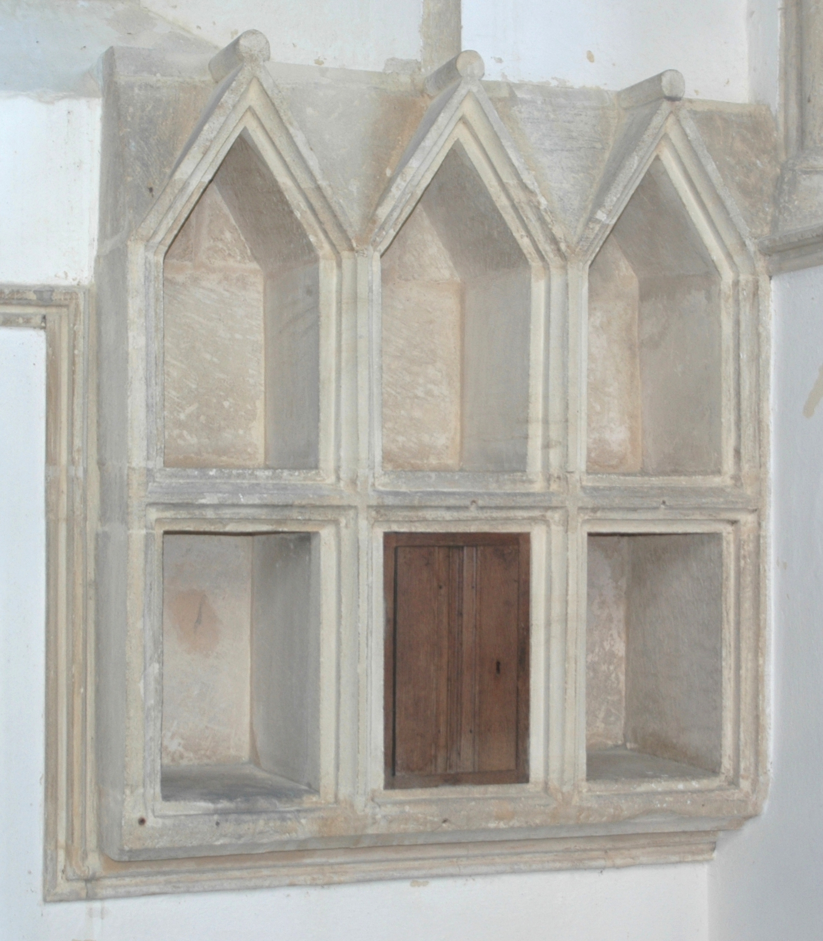 Aumbry of Church of England parish church of St Matthew, Langford, Oxfordshire